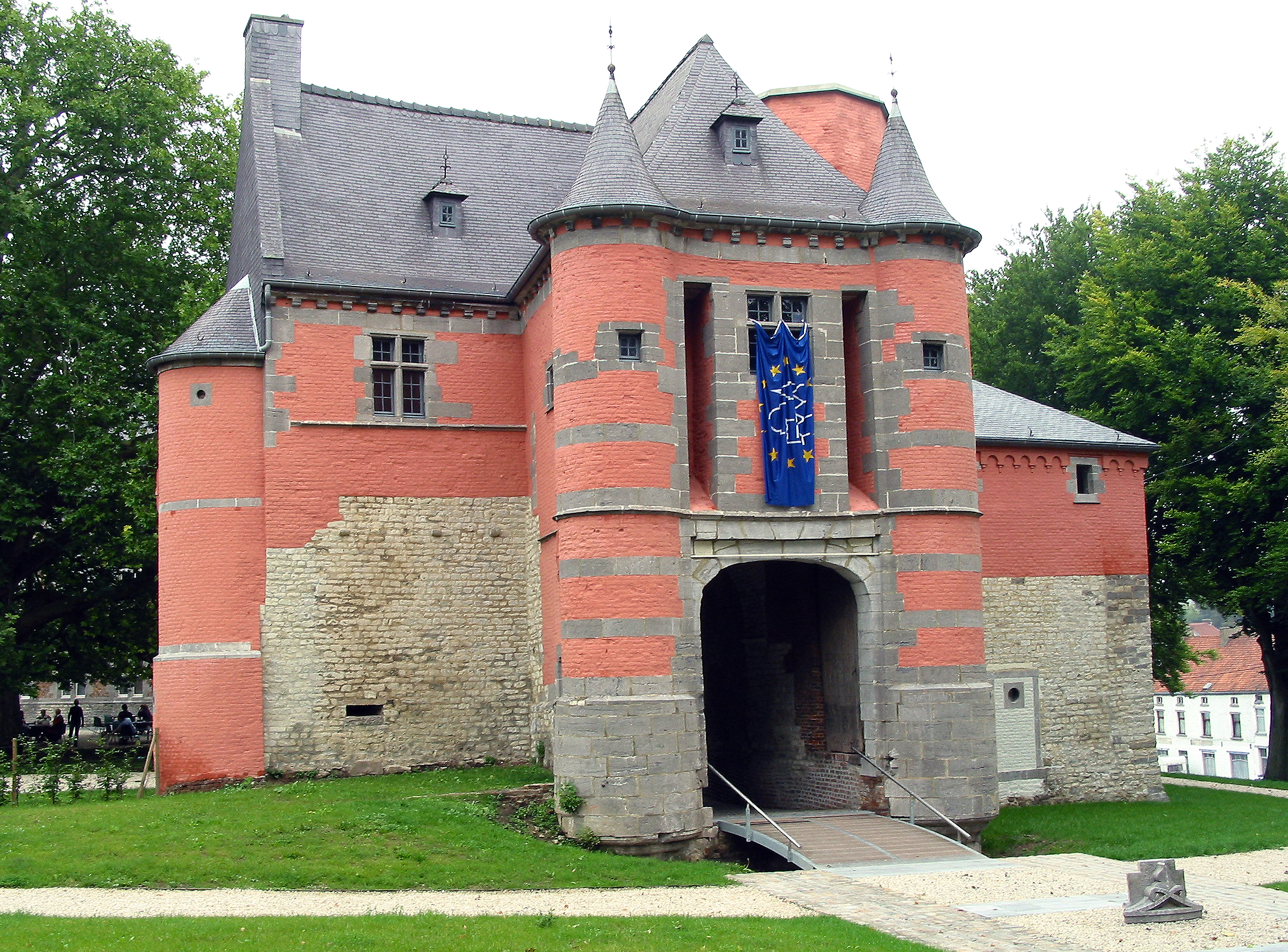 Trazegnies (Belgium), the castle (XI-XVIth century).